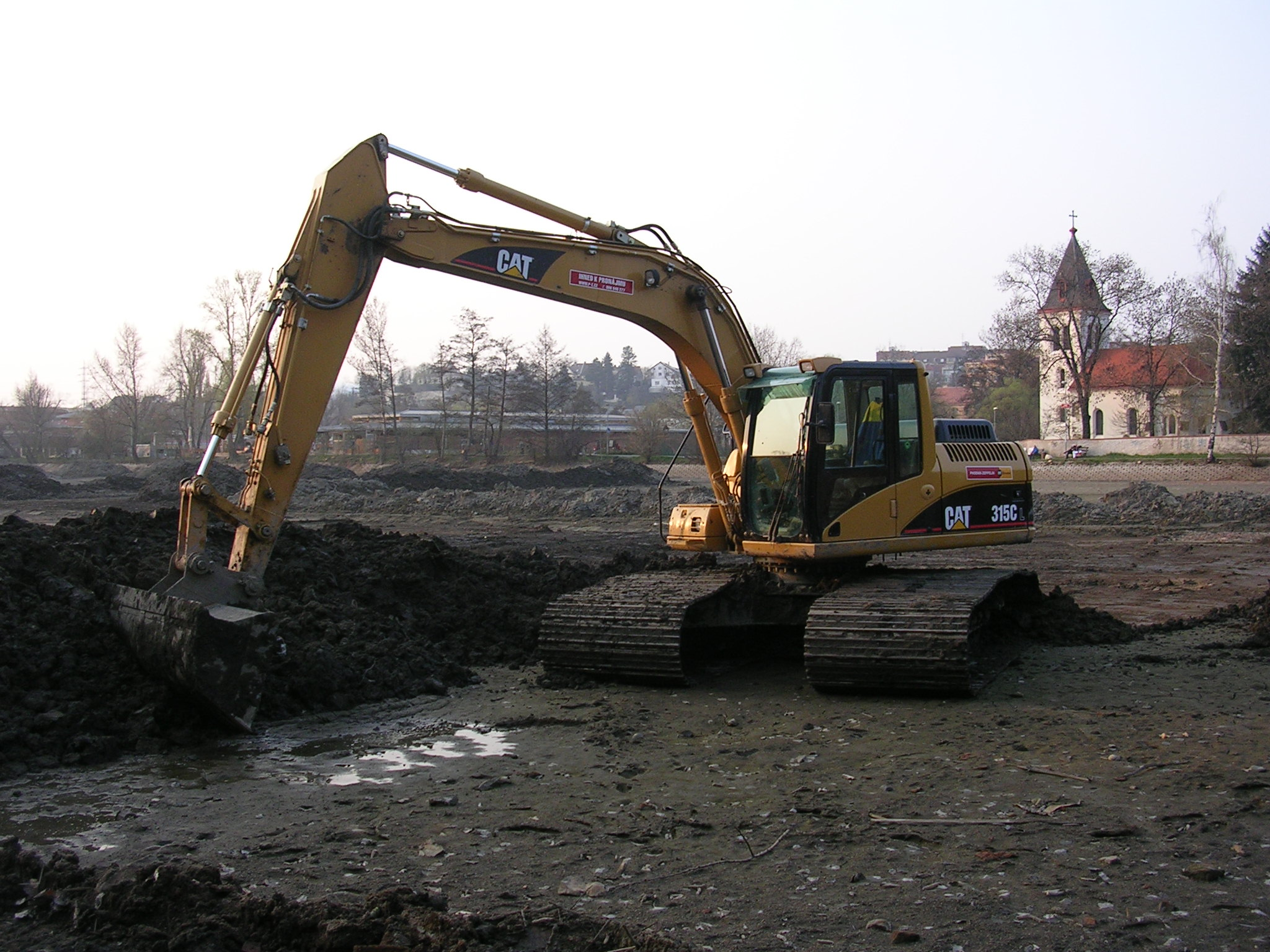 Záběhlice, Prague, the Czech Republic. - Google Maps - Google Earth